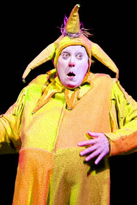 Nola Rae performing live